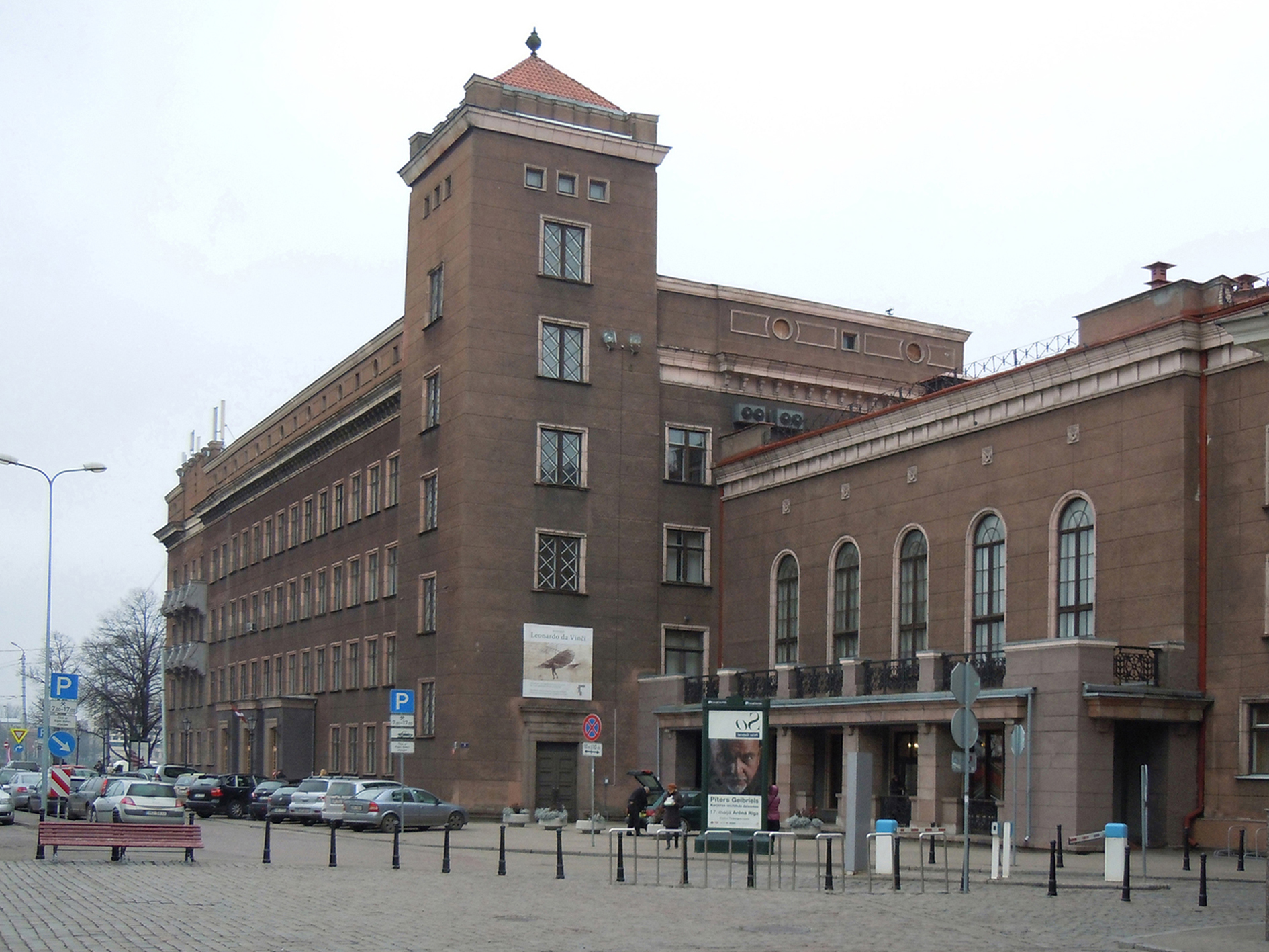 Riga Technical University.